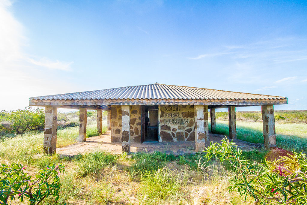 Koobi Fora Museum in Sibiloi National Park on the western shore on Lake Turkana